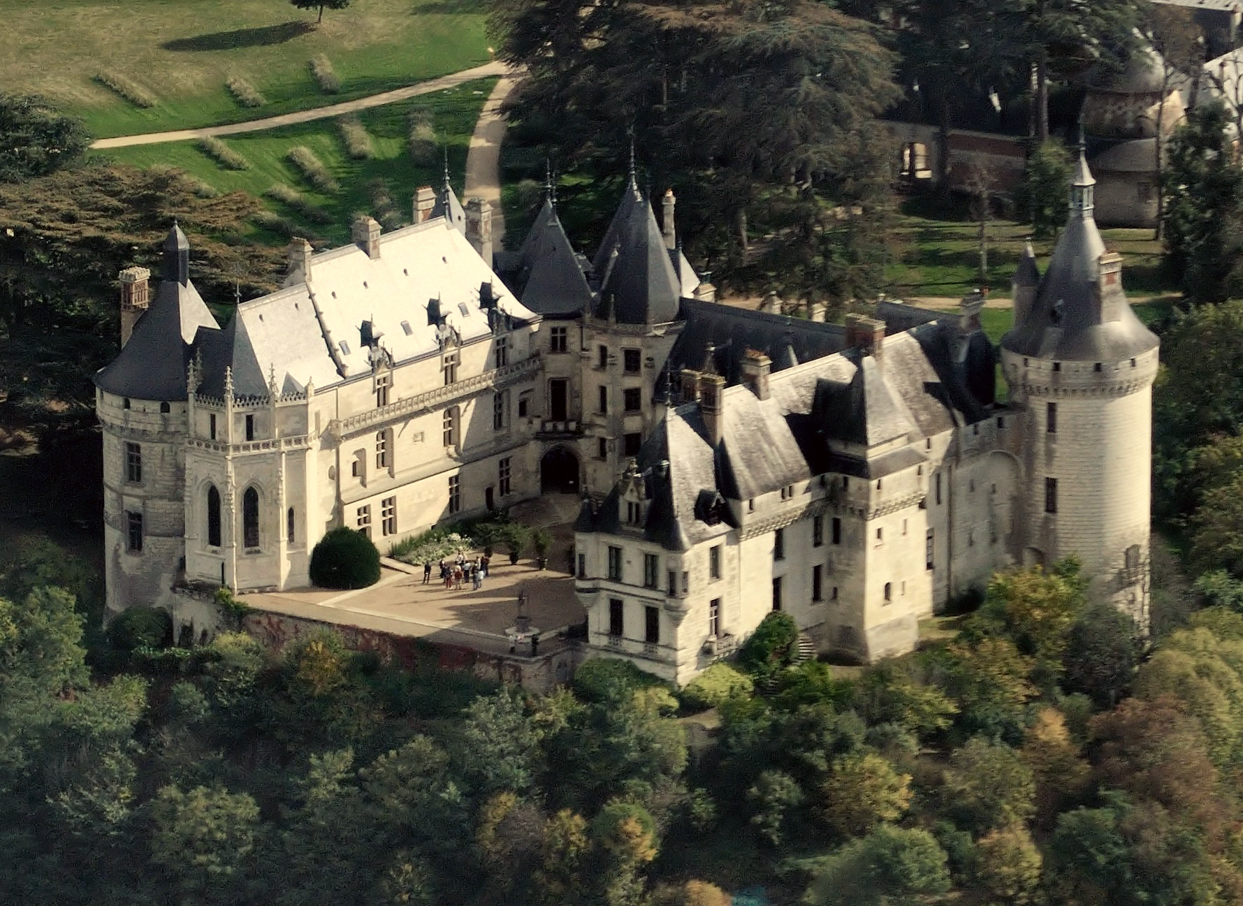 Aerial view of the Château de Chaumont, Loir-et-Cher